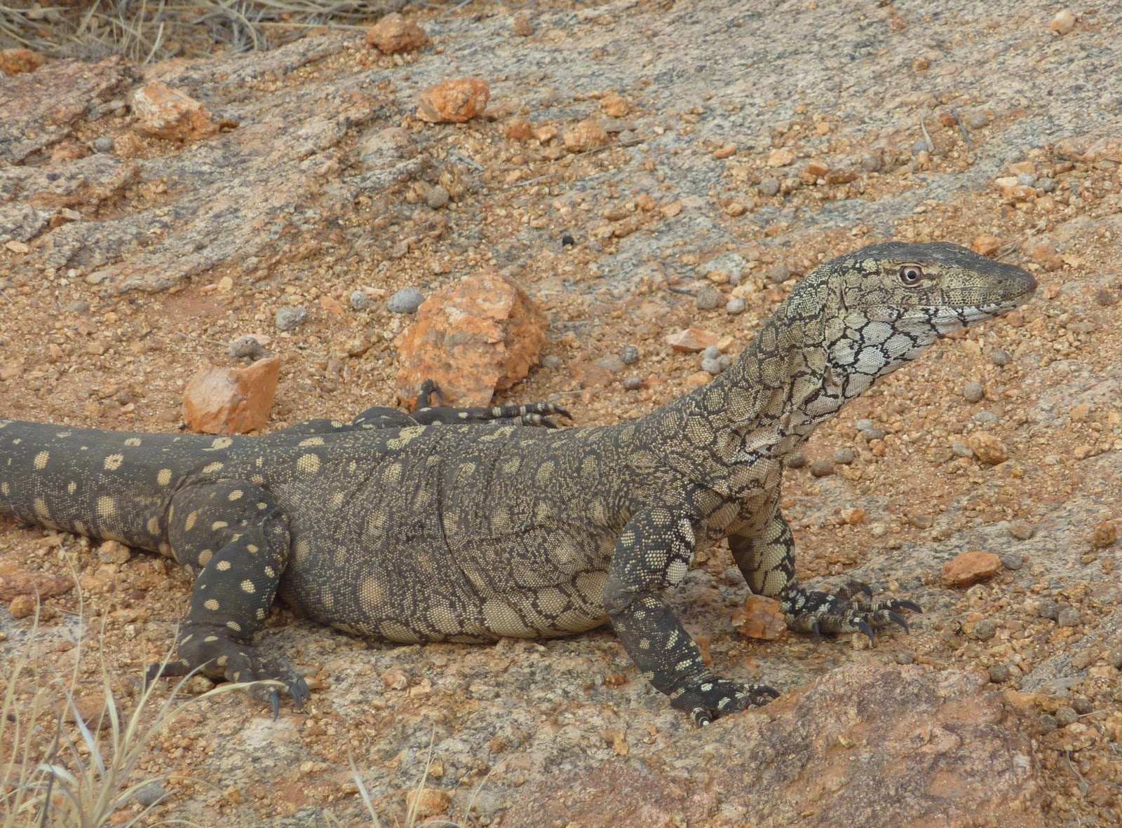 Perentie (Varanus giganteus), Northern Territory, Australia